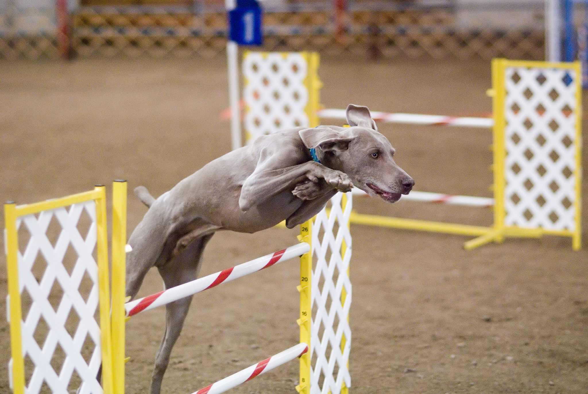 A Weimaraner during an agility competition.